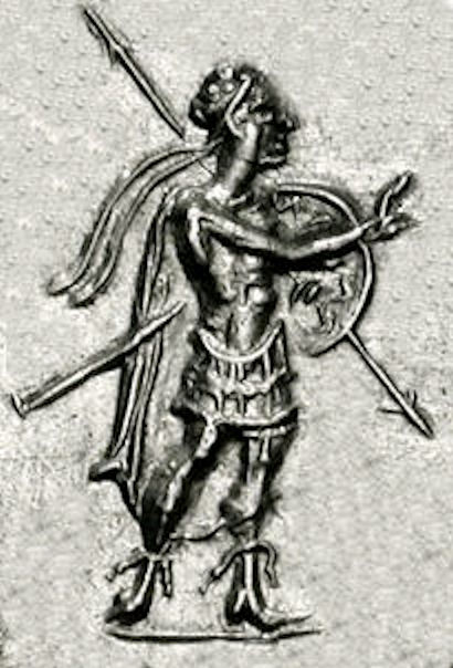 King Strato in uniform circa 100 BCE. Detail of